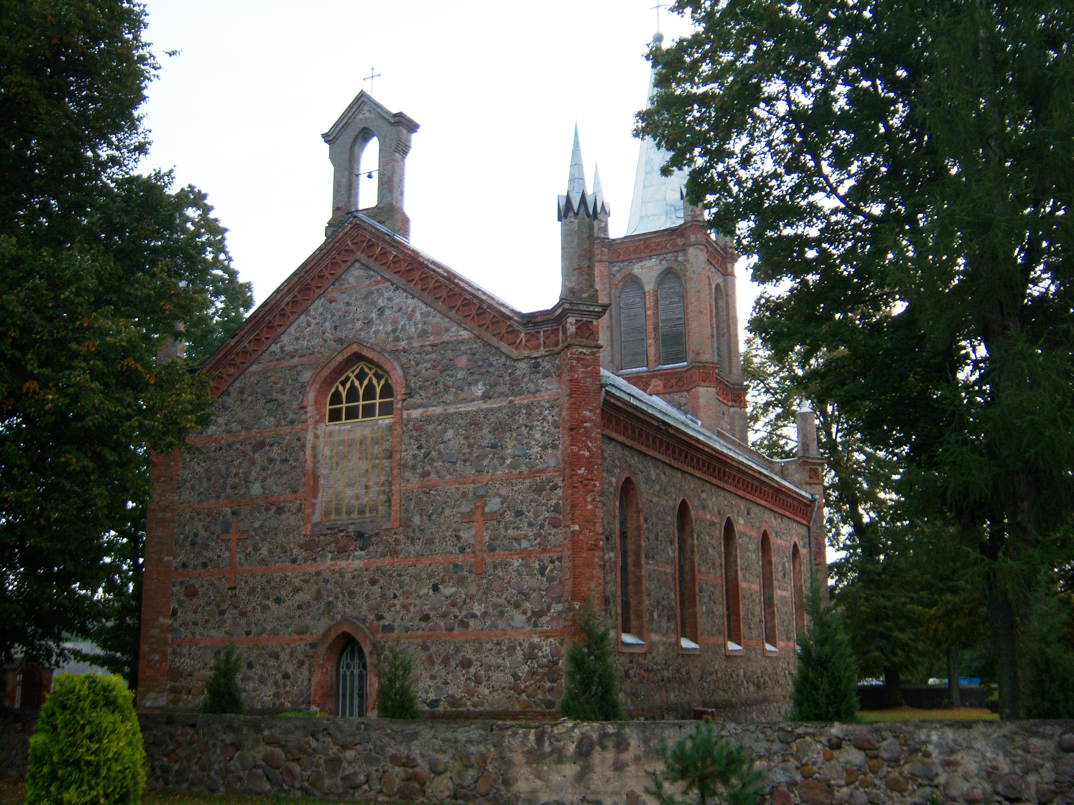 Roman Catholic Church, Gižai, Vilkaviškis District, Lithuania